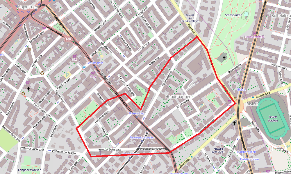 Map of Hegdehaugen